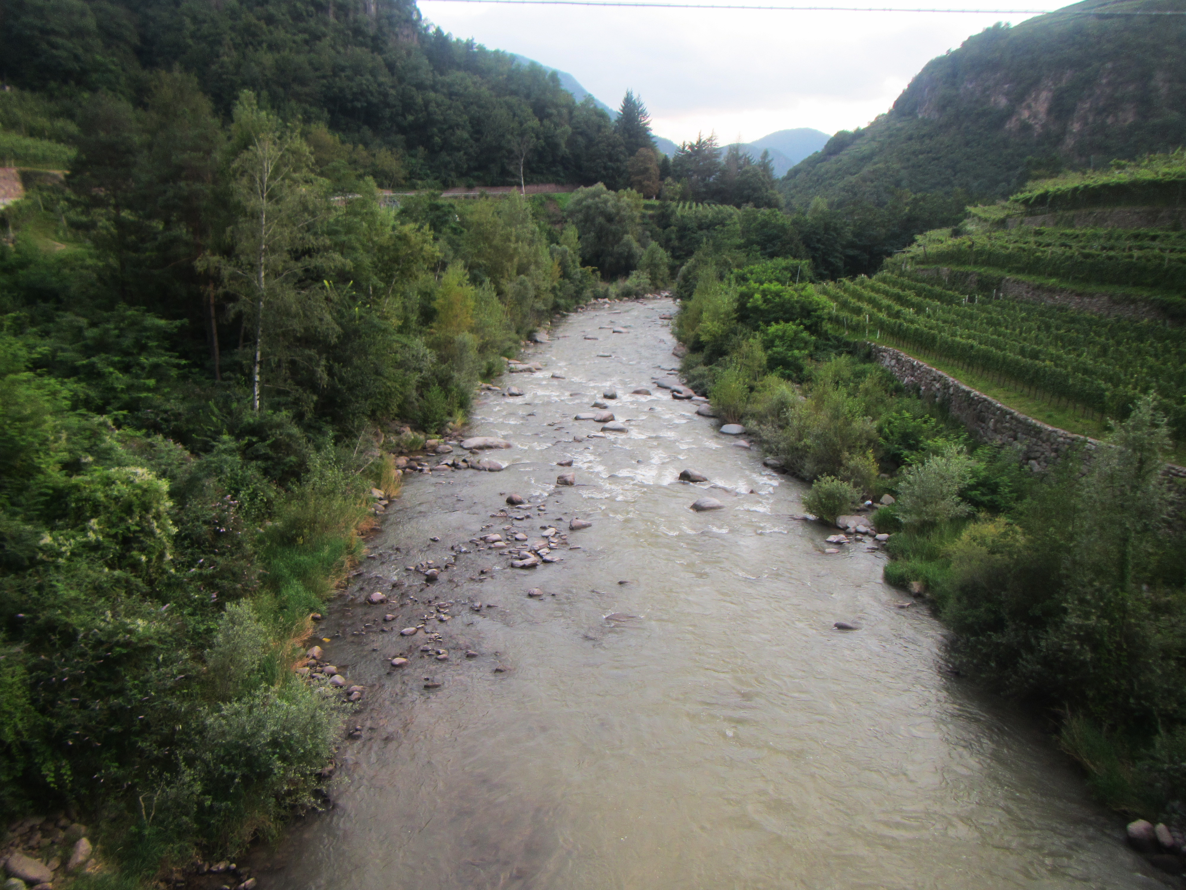 River Avisio as seen from the bridge of Cantilaga (in the downstream direction), in Segonzano